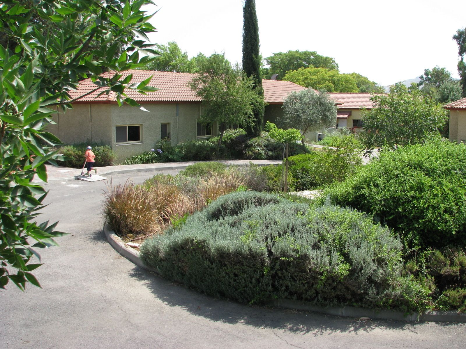 Aluteva vacation village, Karmiel, Israel